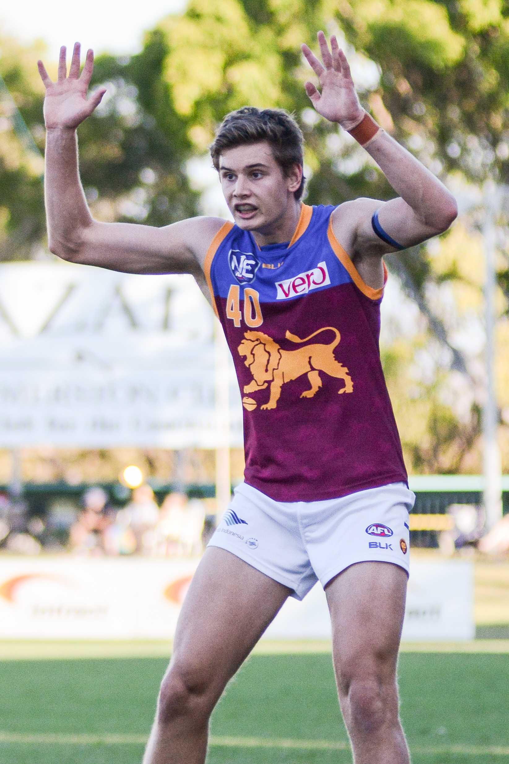 Matthew Hammelmann in July 2015